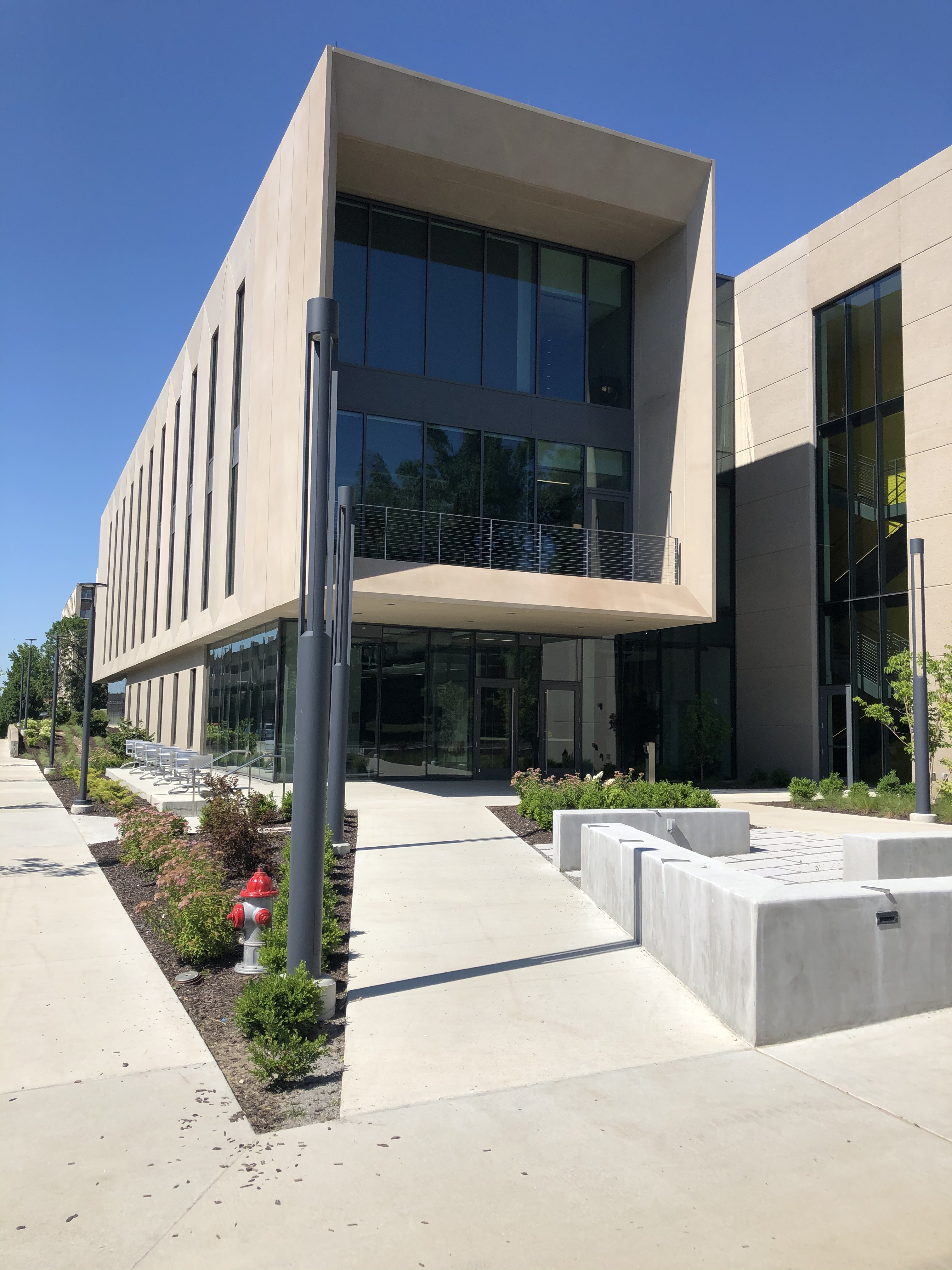 Sinquefield Music Center home of the University of Missouri School of Music. From the corner of Hitt Street and University Avenue. Taken June 17th 2020